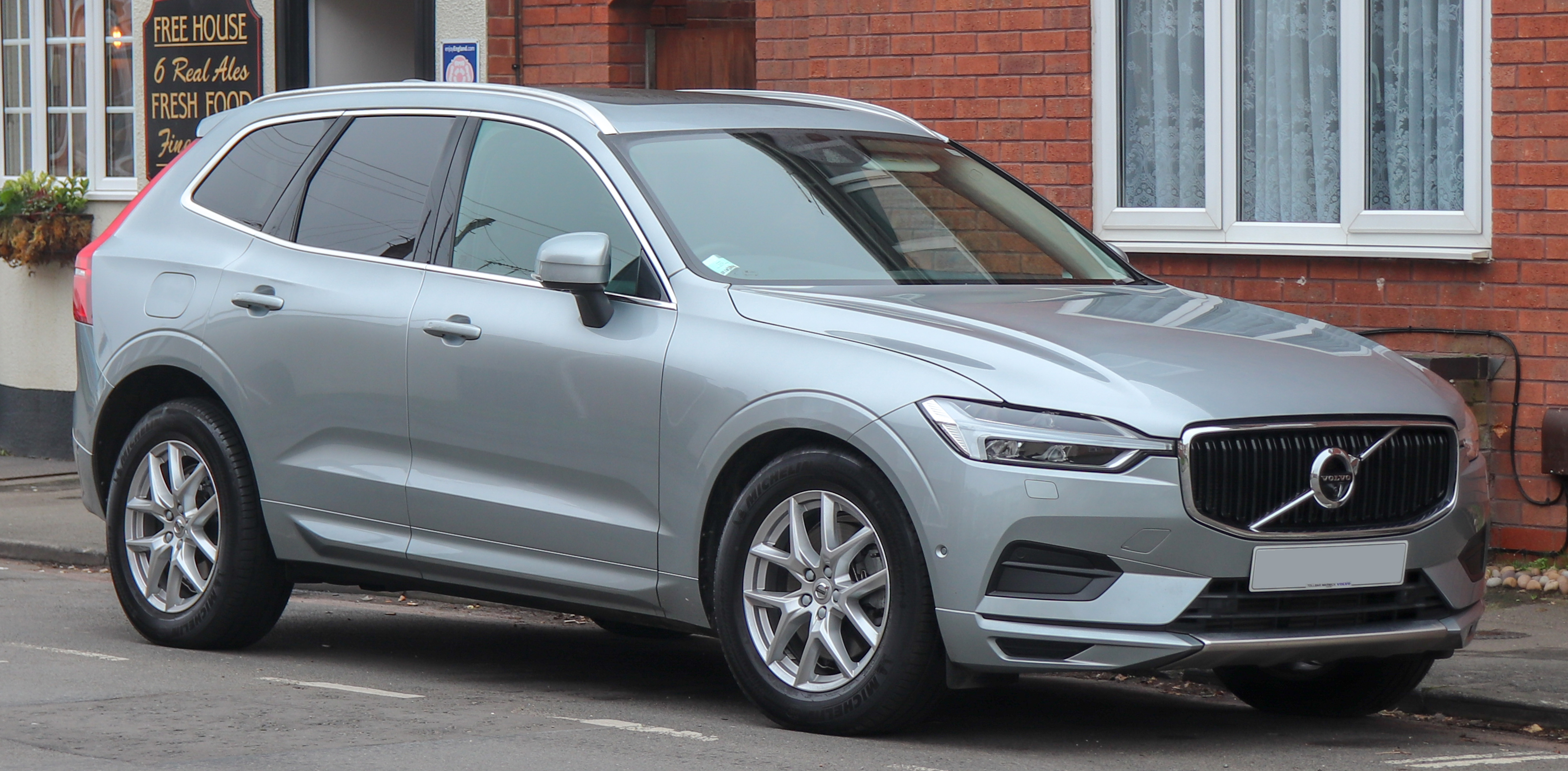 2017 Volvo XC60 Momentum T5 AWD Automatic 2.0 Front Taken in Warwick